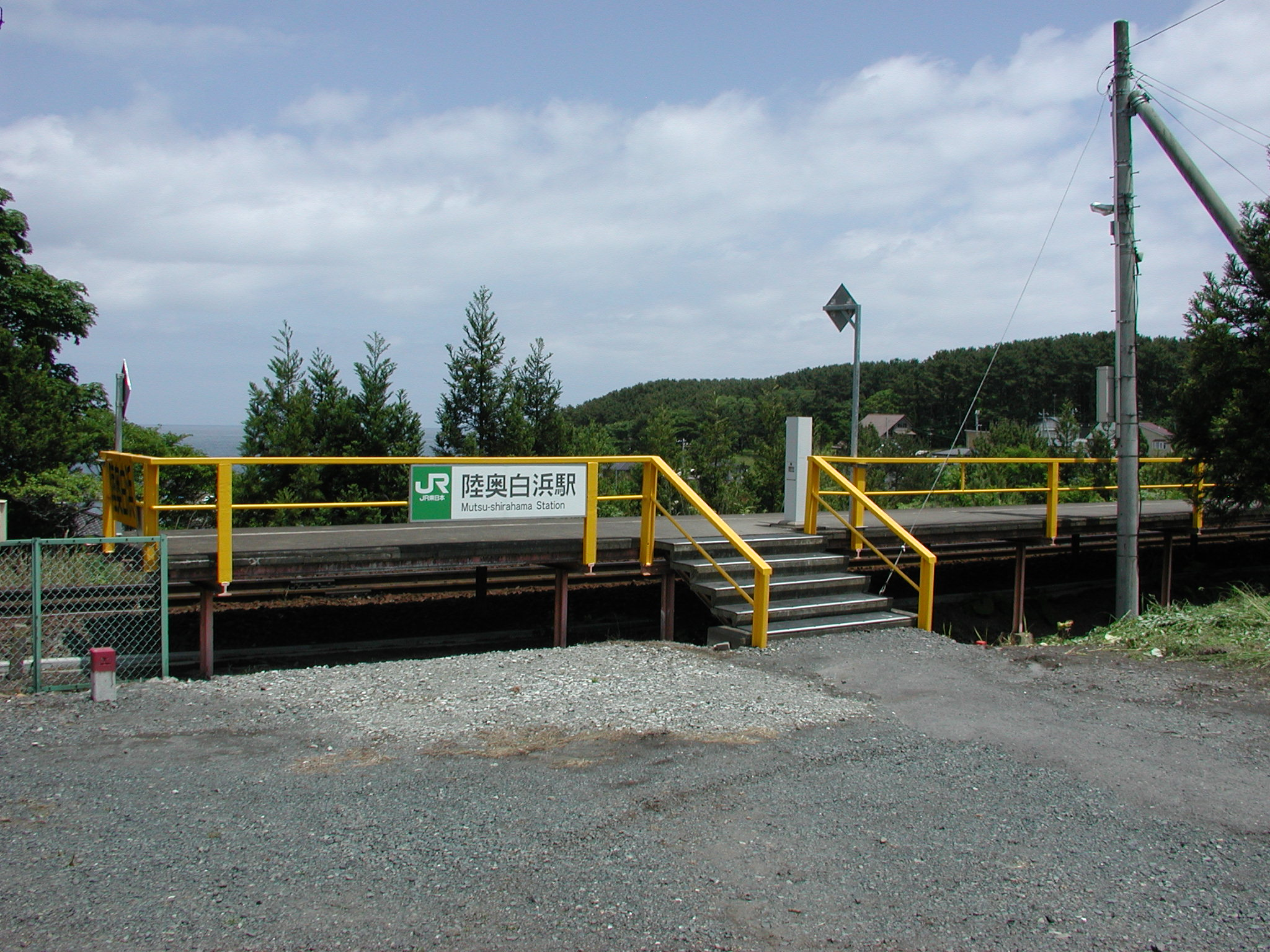 Mutsu-Shirahama Station of Entrance